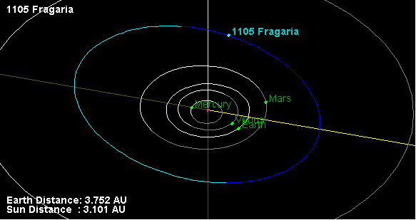 The author of this image is NASA. It simply illustrates the orbit of the asteroid.